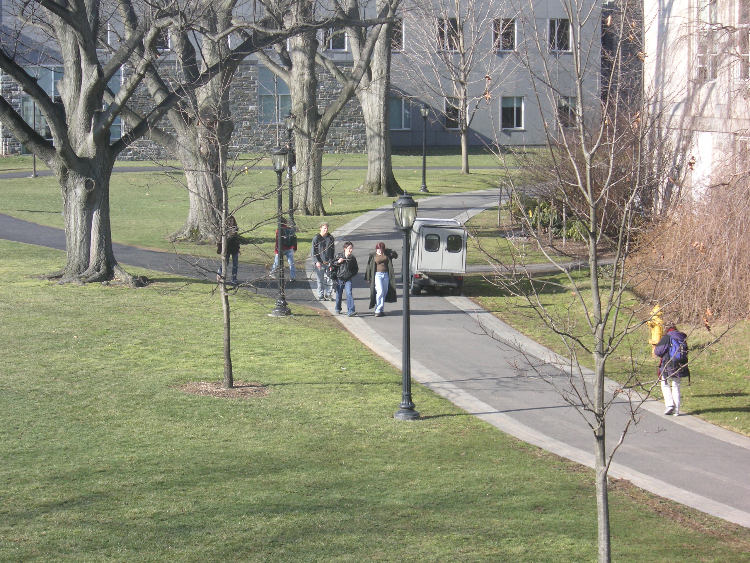 The campus of Swarthmore College.